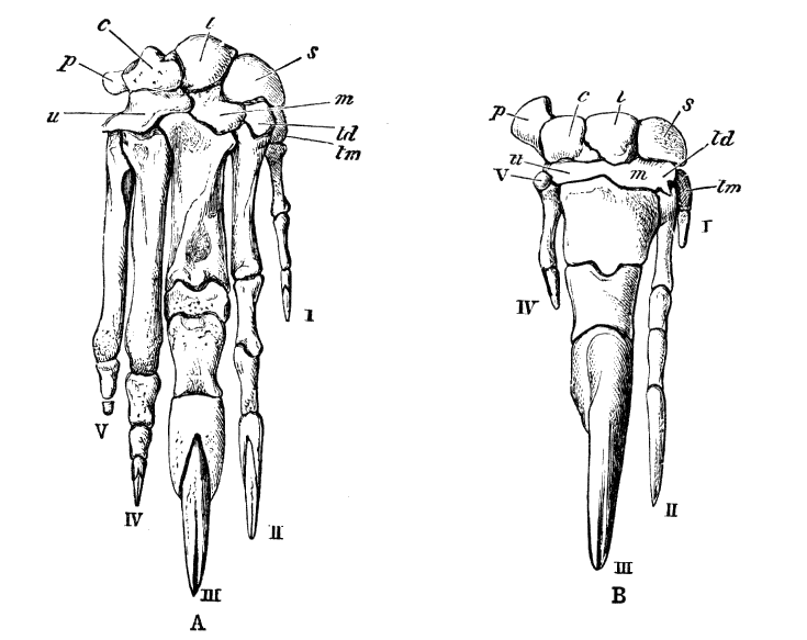 Fig. 95.—A, Manus of Great Anteater (Myrmecophaga jubata). × ⅓. B, Manus of Little Anteater (Cycloturus didactylus). × 2. c, Cuneiform; l, lunar; m, magnum; p, pisiform; s, scaphoid; td, trapezoid; tm, trapezium; u, unciform; I-V, digits. (From Flower's Osteology.) Myrmecophaga jubata is a synonym of M. tridactyla, and Cycloturus didactylus is now referred to genus Cyclopes.